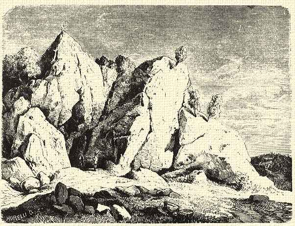 The rocky hillside of the Büdös-mountain in Transylvania, with the mouth of the sulphur-cave called Büdös-barlang.